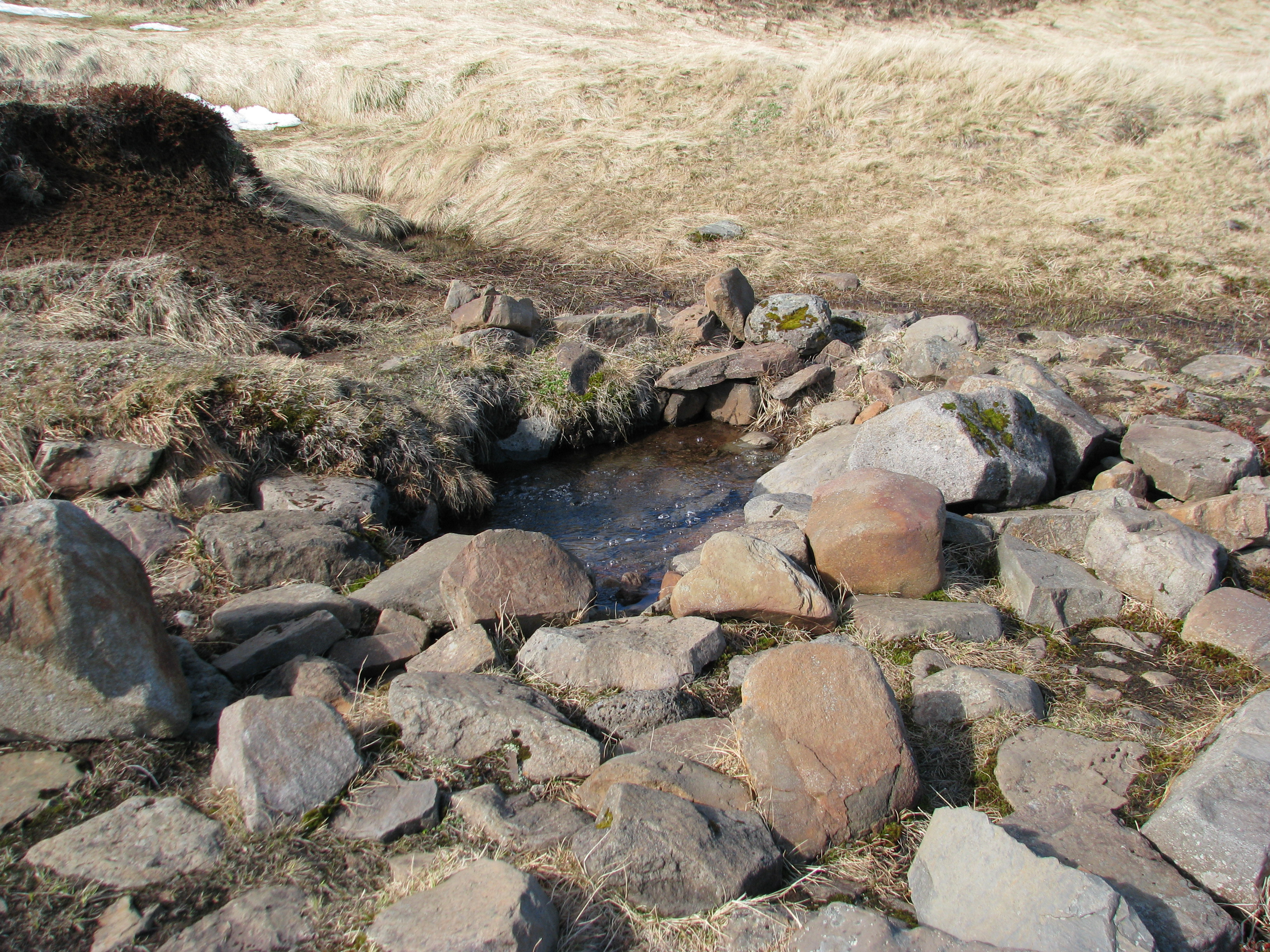 Raudamelsolkelda, the largest mineral spring on Iceland.